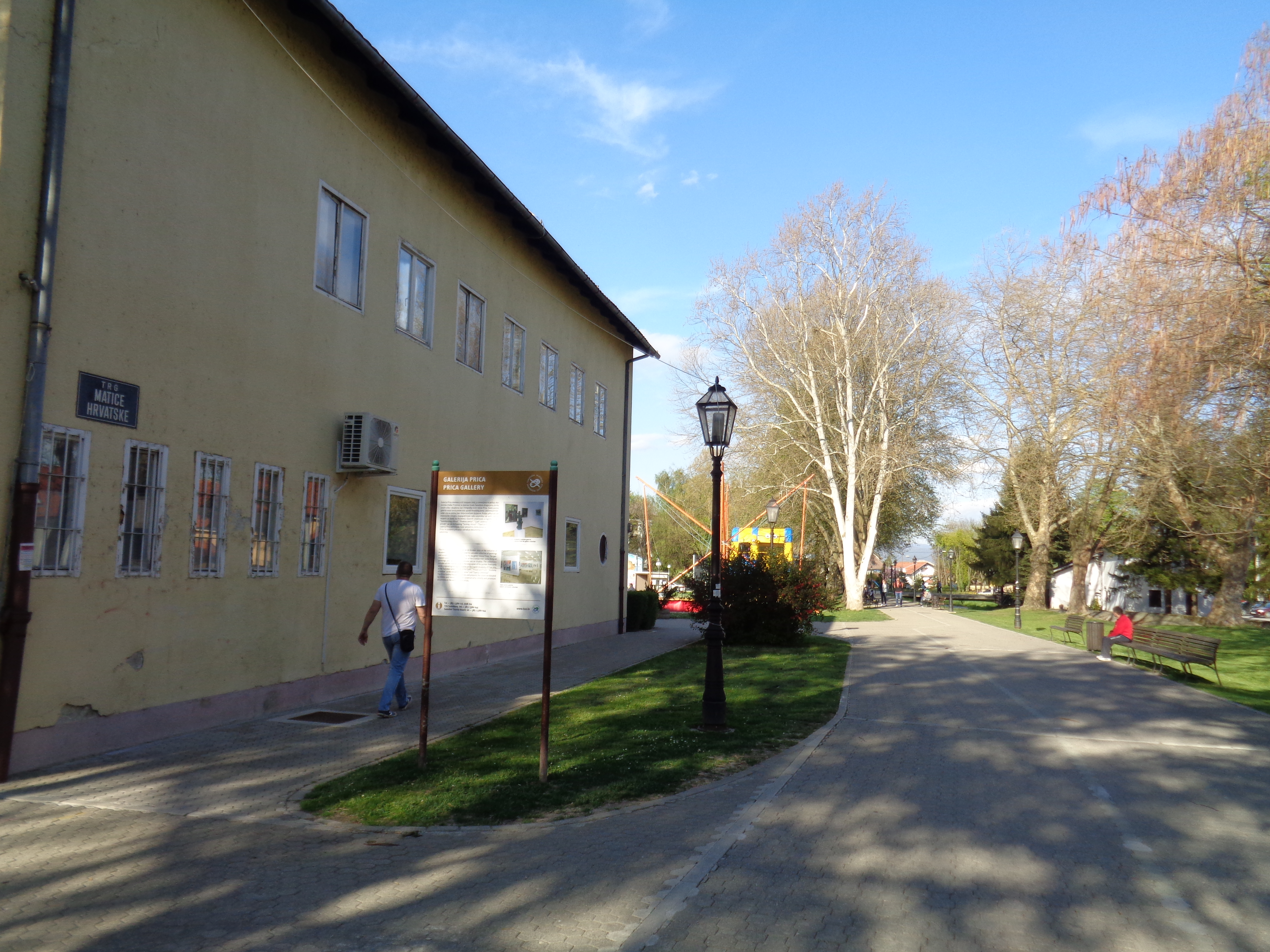 Samobor, Zagreb County, Croatia - Matrix Croatica Square